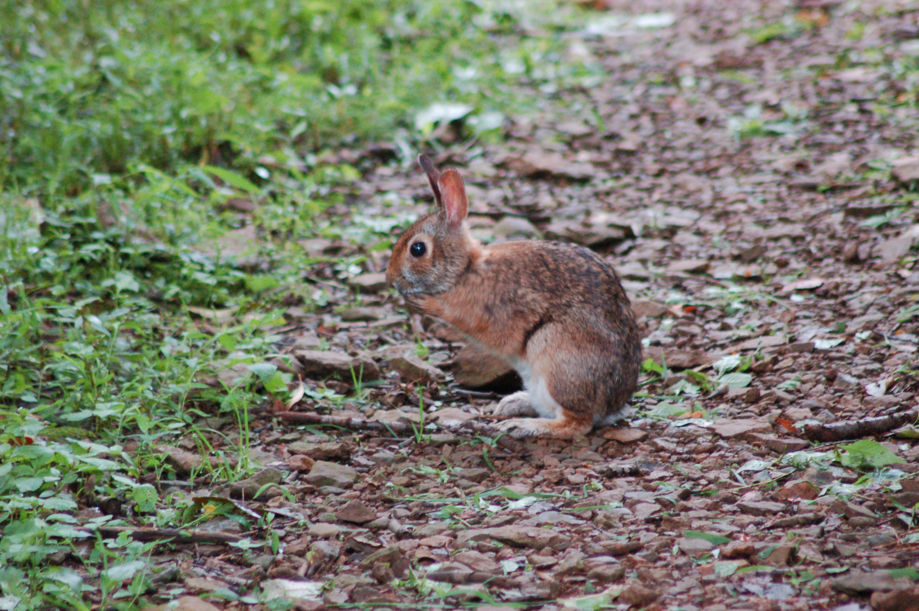 Appalachian Cottontail (Sylvilagus obscurus) grooming himself in the middle of the trail. You NEVER see a wild bunny doing that. Did his ears and face and even a little of his butt.